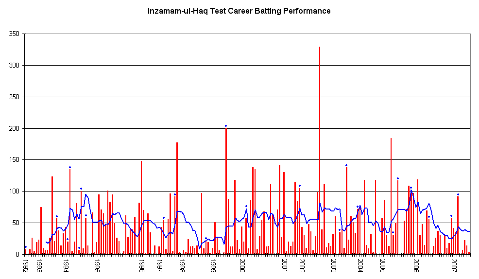 This graph details the Test Match performance of Inzamam-ul-Haq. The red bars indicate the player's test match innings, while the blue line shows the average of the ten most recent innings at that point. Note that this average cannot be calculated for the first nine innings. The blue dots indicate innings in which Inzamam finished not-out. This graph was generated with Microsoft Excel 2002, using data from Cricinfo and .au.